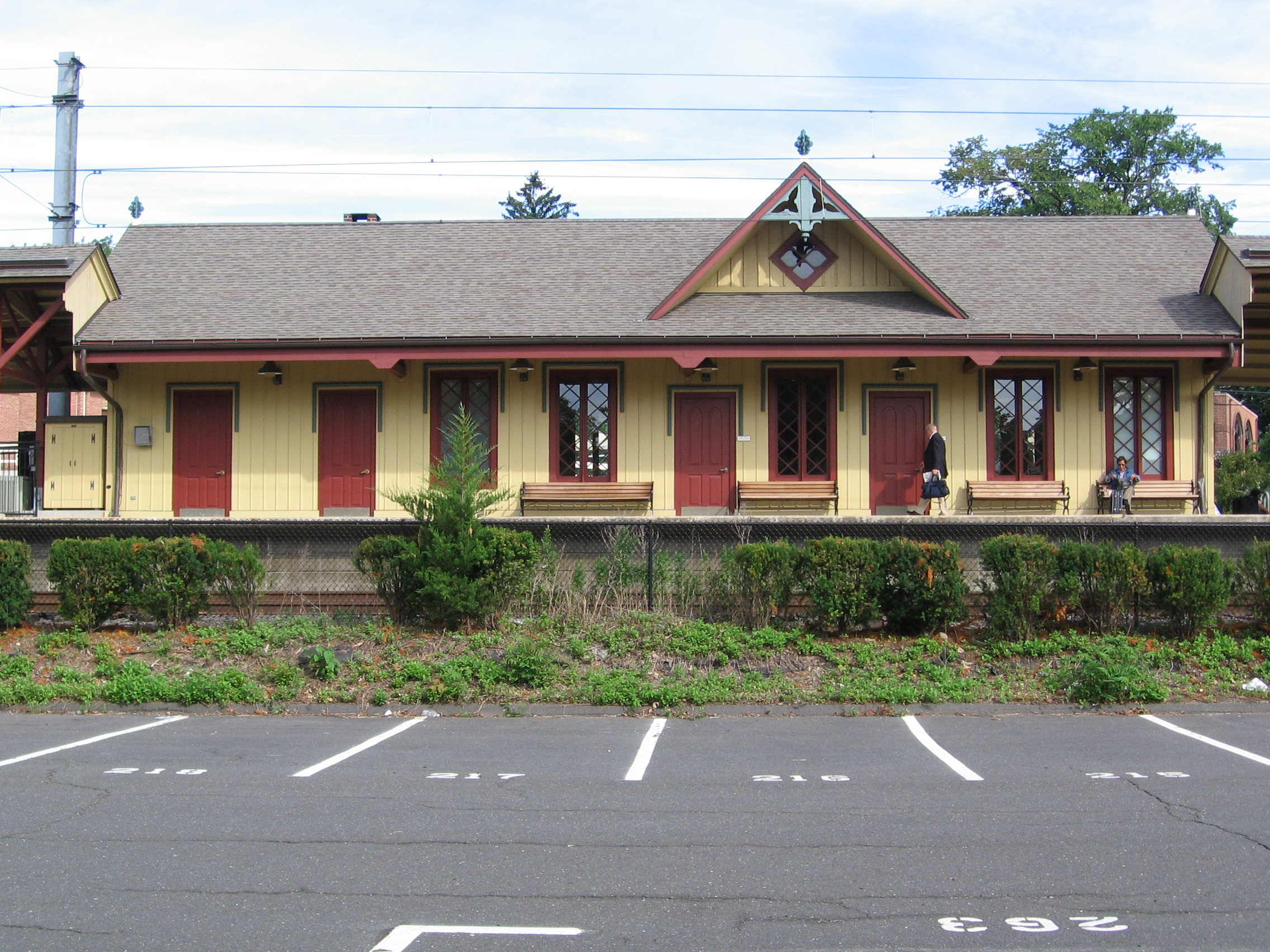 View from across the tracks, station building, New Canaan in New Canaan, terminus of the New Canaan Branch